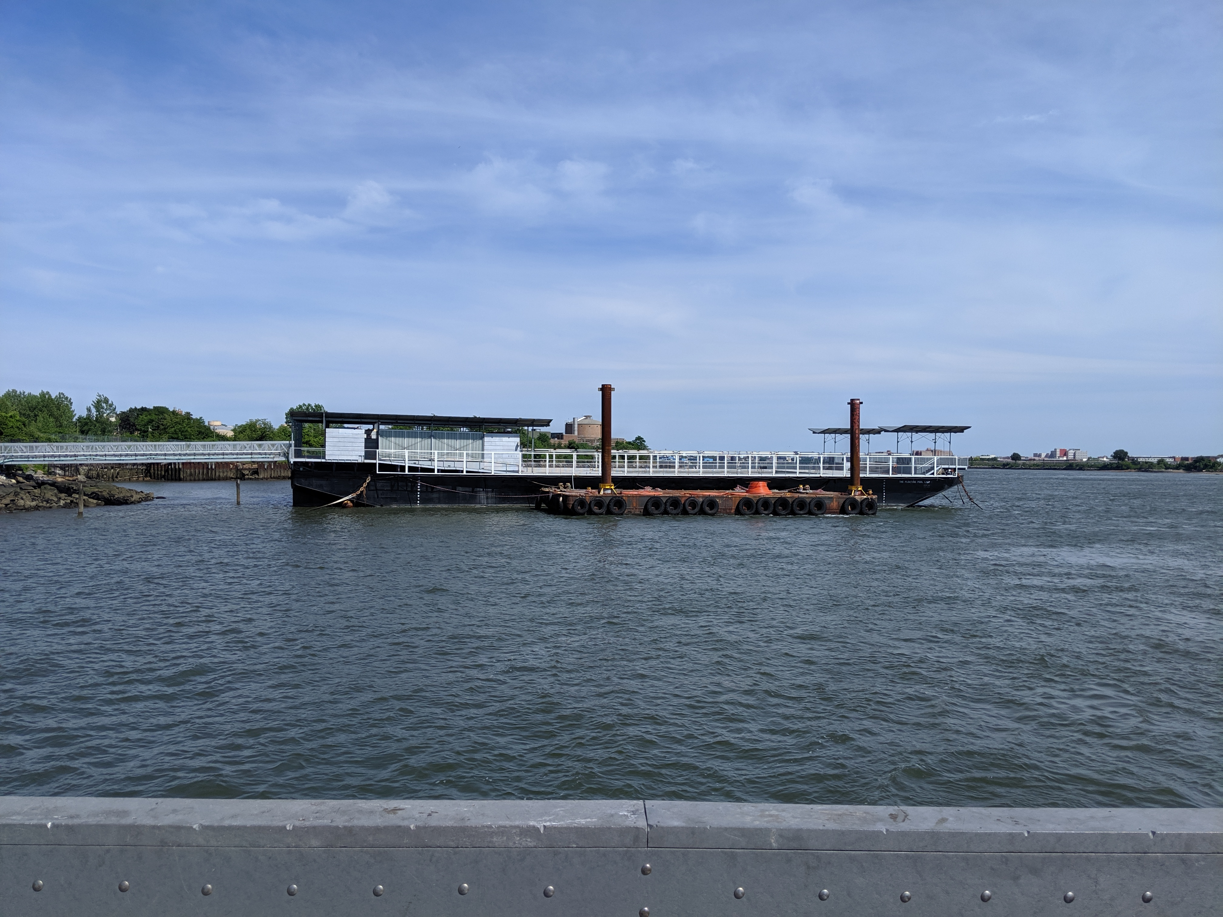 The Floating Pool Lady, a barge with a swimming pool, at its mooring off Barretto Point Park in Bronx, NY, USA.